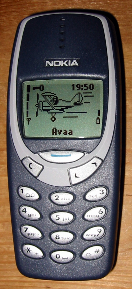 Nokia 3310 GSM phone